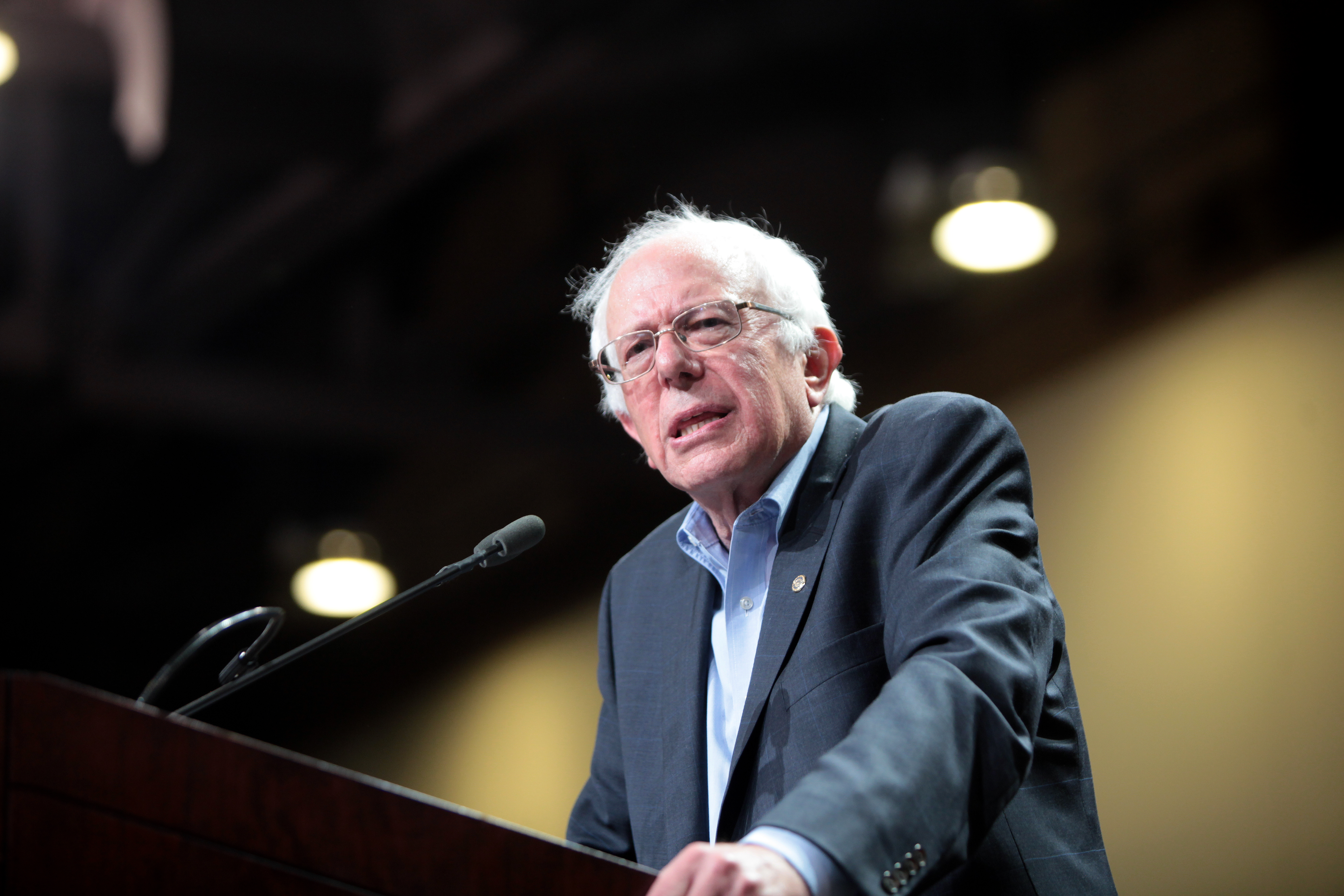 U.S. Senator Bernie Sanders of Vermont speaking at a town meeting at the Phoenix Convention Center in Phoenix, Arizona.